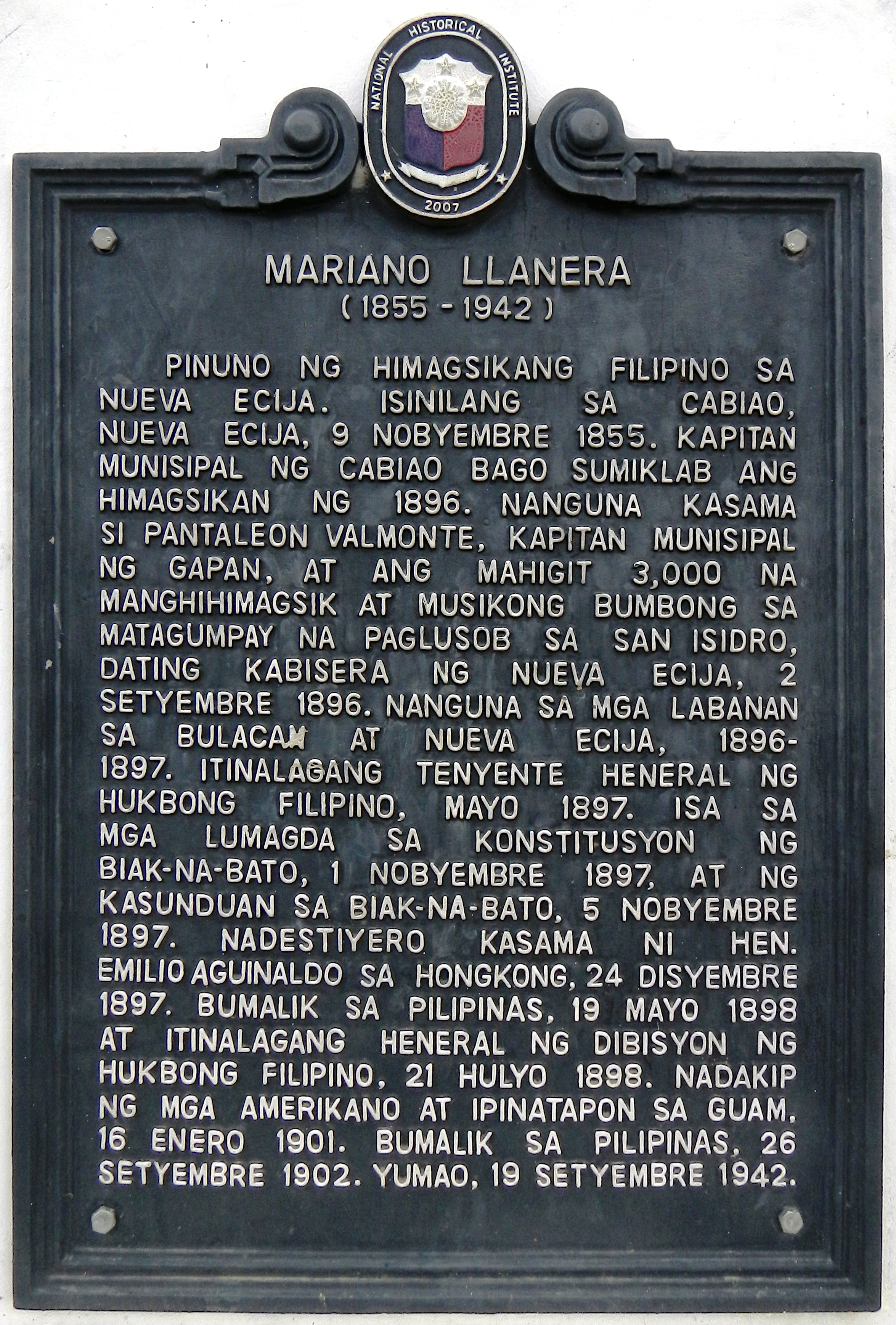 Historical marker installed by the National Historical Institute in 2007 to commemorate Mariano Llanera.